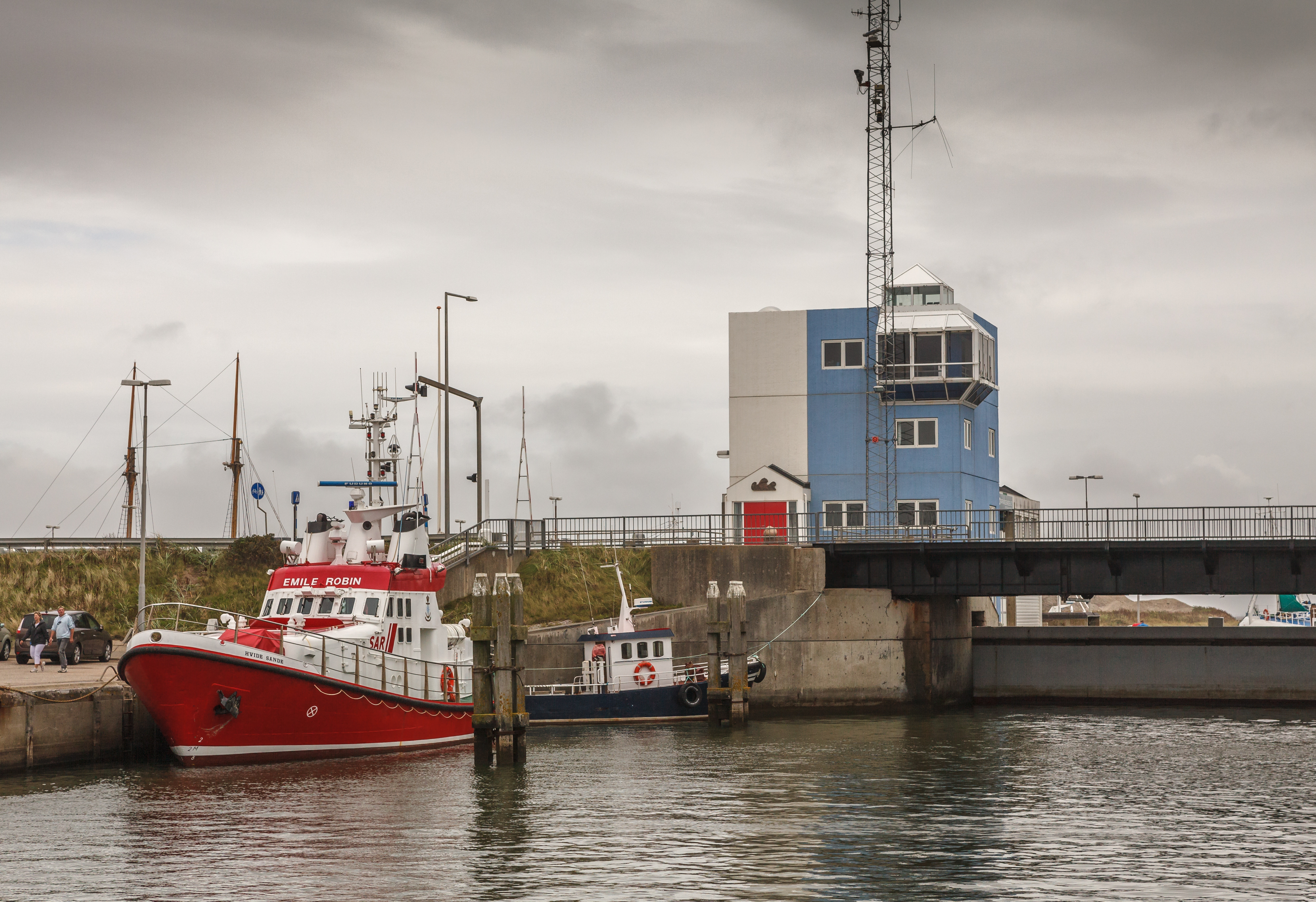 The lifeboat Emile Robin in Hvide Sande IMO Number: 8717439 MMSI Number: 219002786 Callsign: OYXY Length: 22 m Beam: 6 m